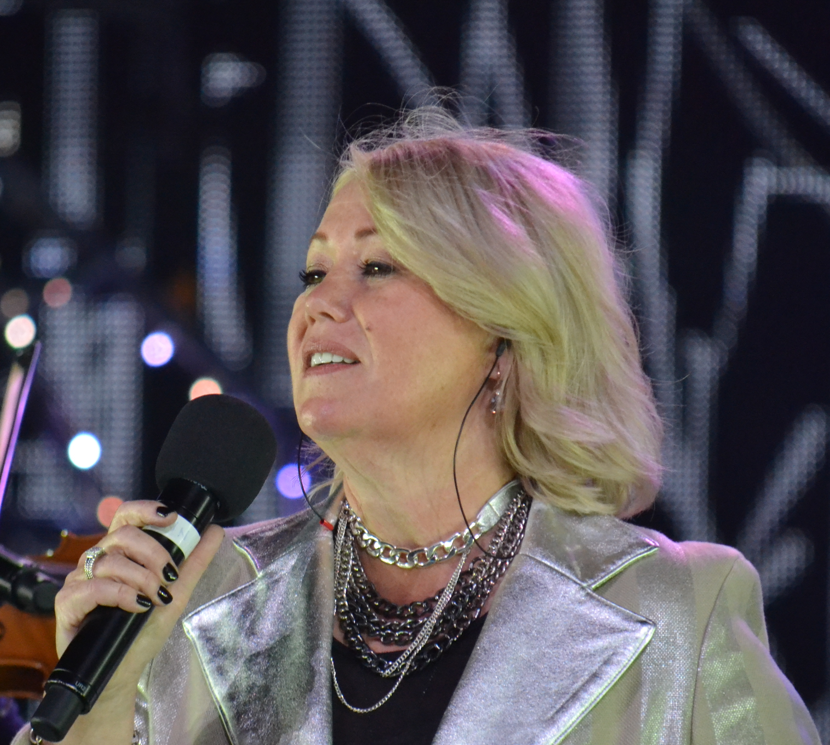 Jann Arden performing at the TransAlta Grandstand Show